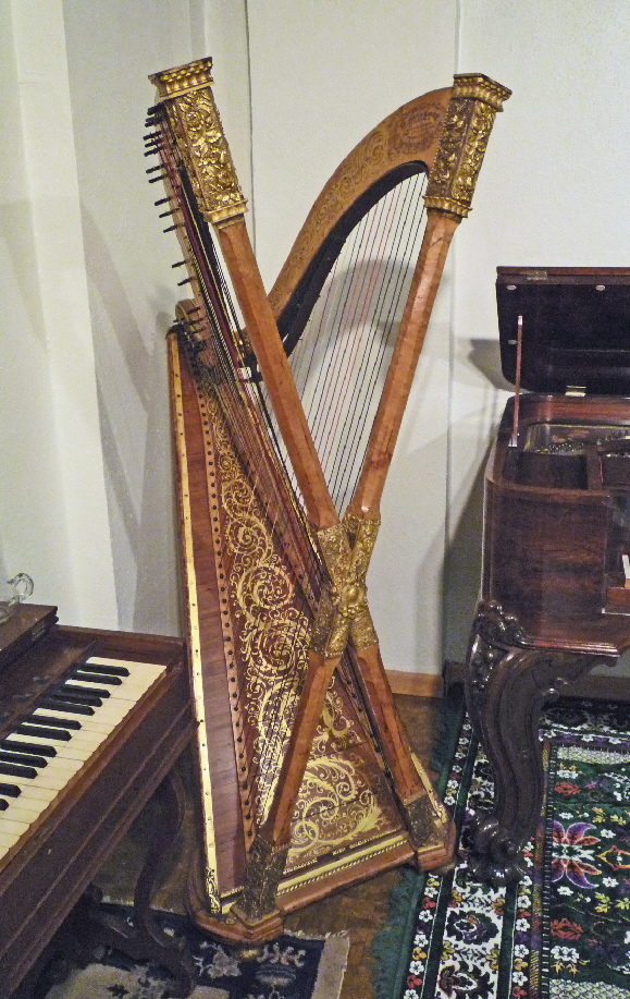 Double chromatic harp, built ca. 1890 by Henry Greenway, Brooklyn, New York. Collection of the National Music Museum, Vermillion, SD, USA